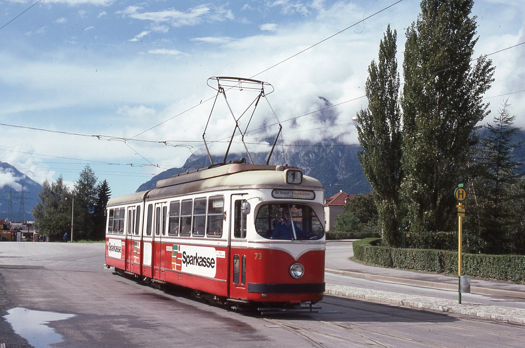 Innsbruck, Lohner built tramcar 73 on line 1.